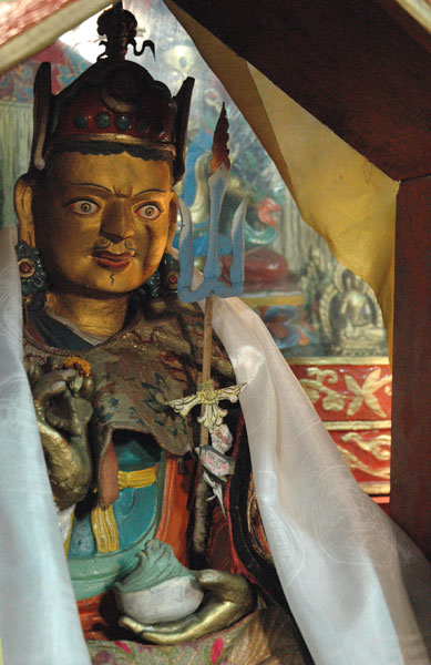 Padmasambhava. Yiga Choeling gompa. Ghoom (West Bengal, India)